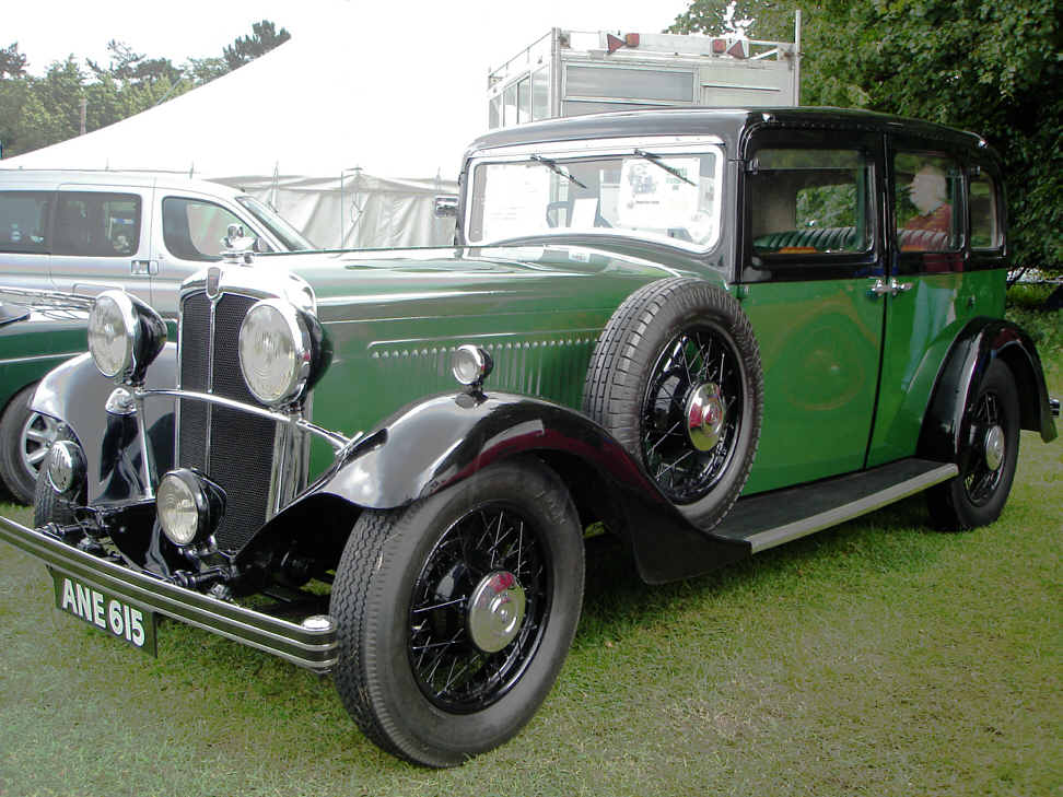 1934 morris Oxford saloon. DVLA: 2107cc manf. 1934, first registered 7 April 1934 Photographed by myself on 20 August 2006 at Tatton park, Cheshire UK